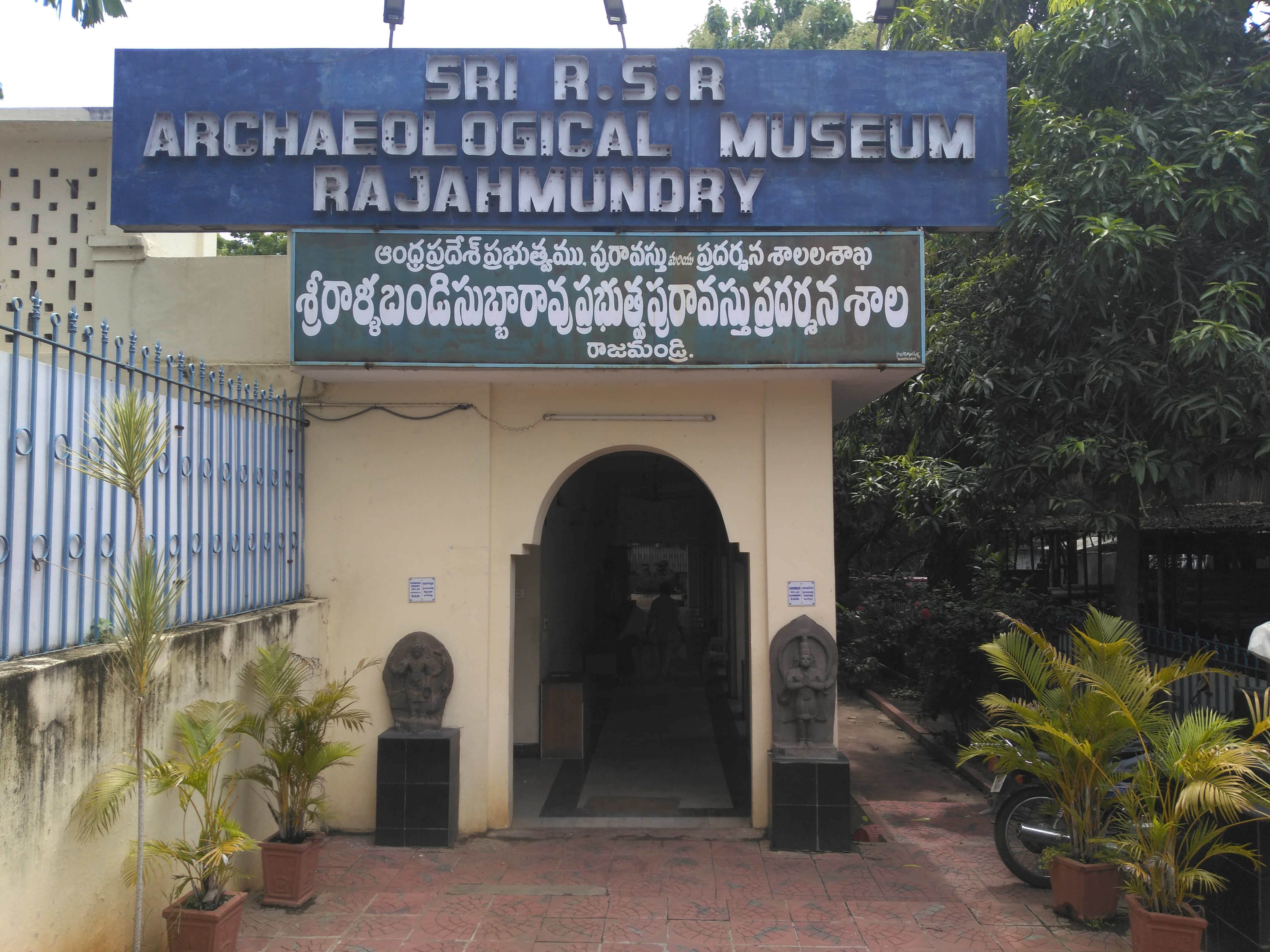 Rallabandi Subbarao Government Museum, Rajamahendravaram (rajahmaundry)